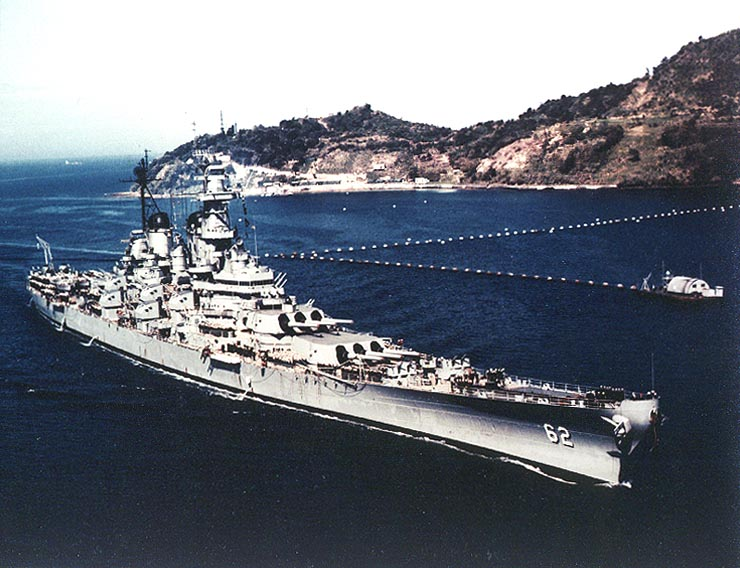 USS New Jersey steaming into a Japanese port, during her second Korean War tour, circa April-May 1953. Note harbor defense nets beyond the ship. Photo #: 80-G-K-16282 Original caption: “Photo # K-16282 USS New Jersey enters Japanese port, 1953” — removed caption